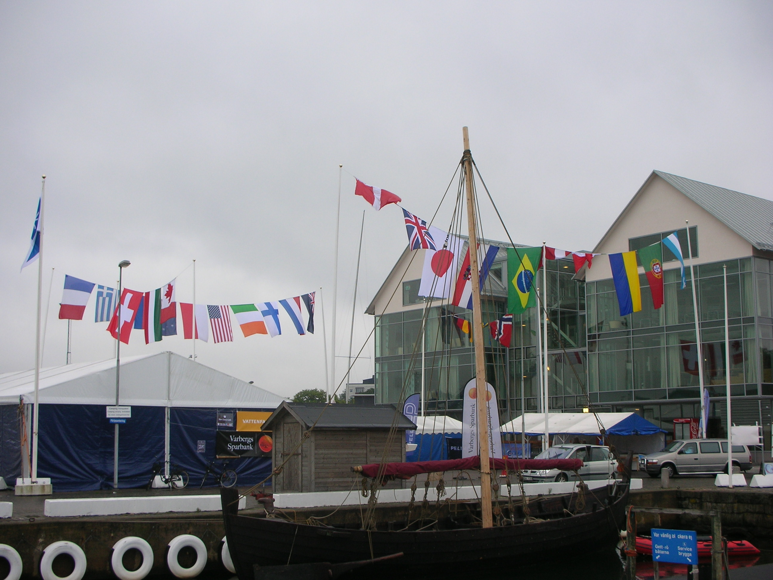 National flags at the 2009 Starboat World Championship in Varberg, Sweden.